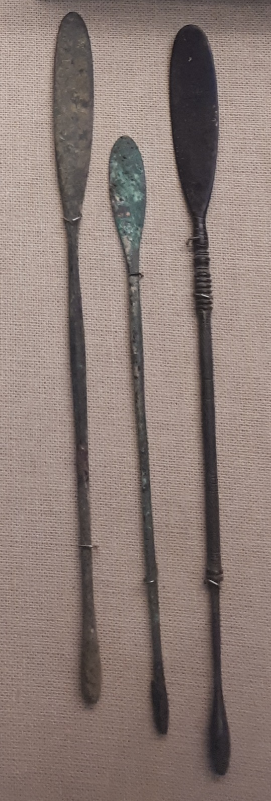 Roman spatulas on display at the British Museum. Description.